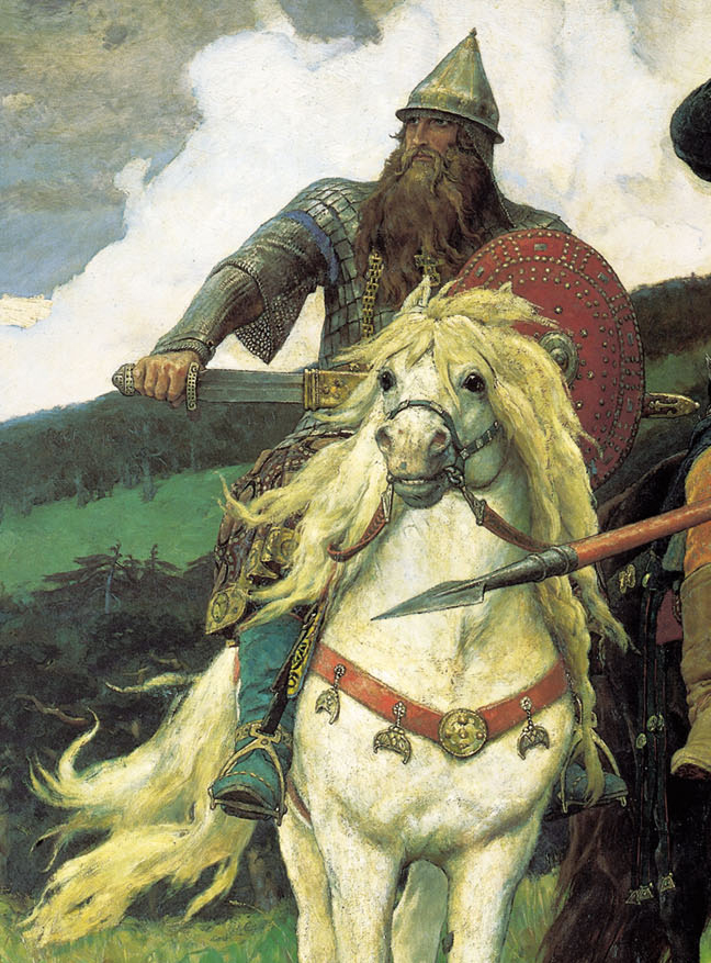 Bogatyrs (1898) by Viktor Vasnetsov. Bogatyrs (left to right): Dobrynya Nikitich, Ilya Muromets, Alyosha Popovich. Oil on canvas 321*222 Russian Museum